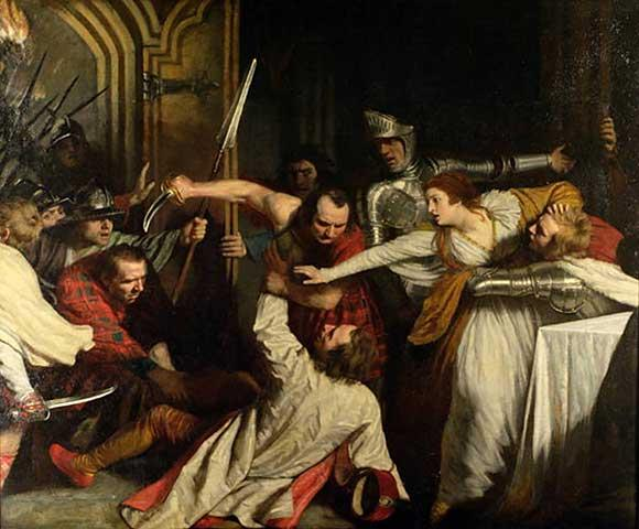 The Murder of Rizzio, by John Opie